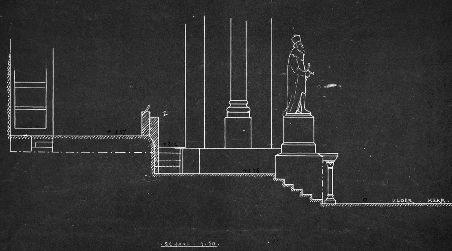 Blueprint, perhaps by Pierre Cuypers, of the new constellation of the Westwork of the Basilica of Saint Servatius, ca 1880.